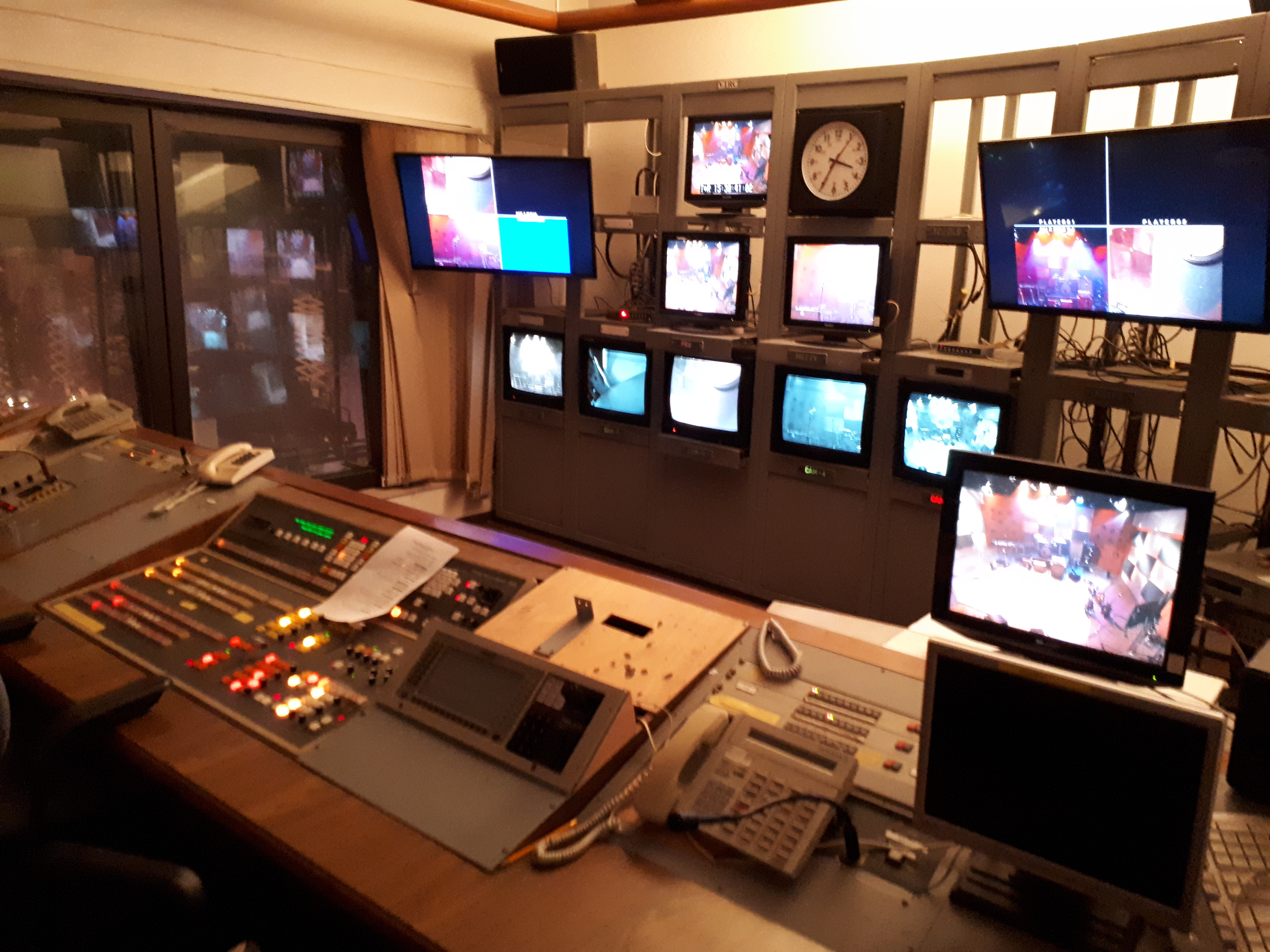 Television control rooms of the IETV. Tel Aviv. April 2018.